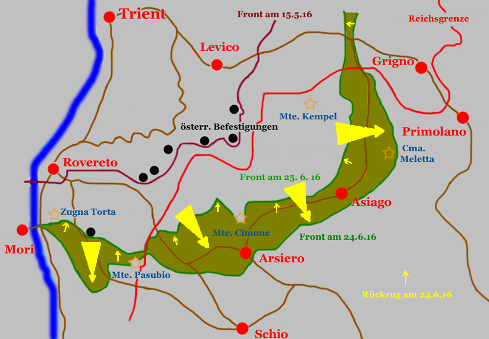 map of the austro-hungarian offensive spring 1916